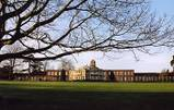 Royal Masonic School